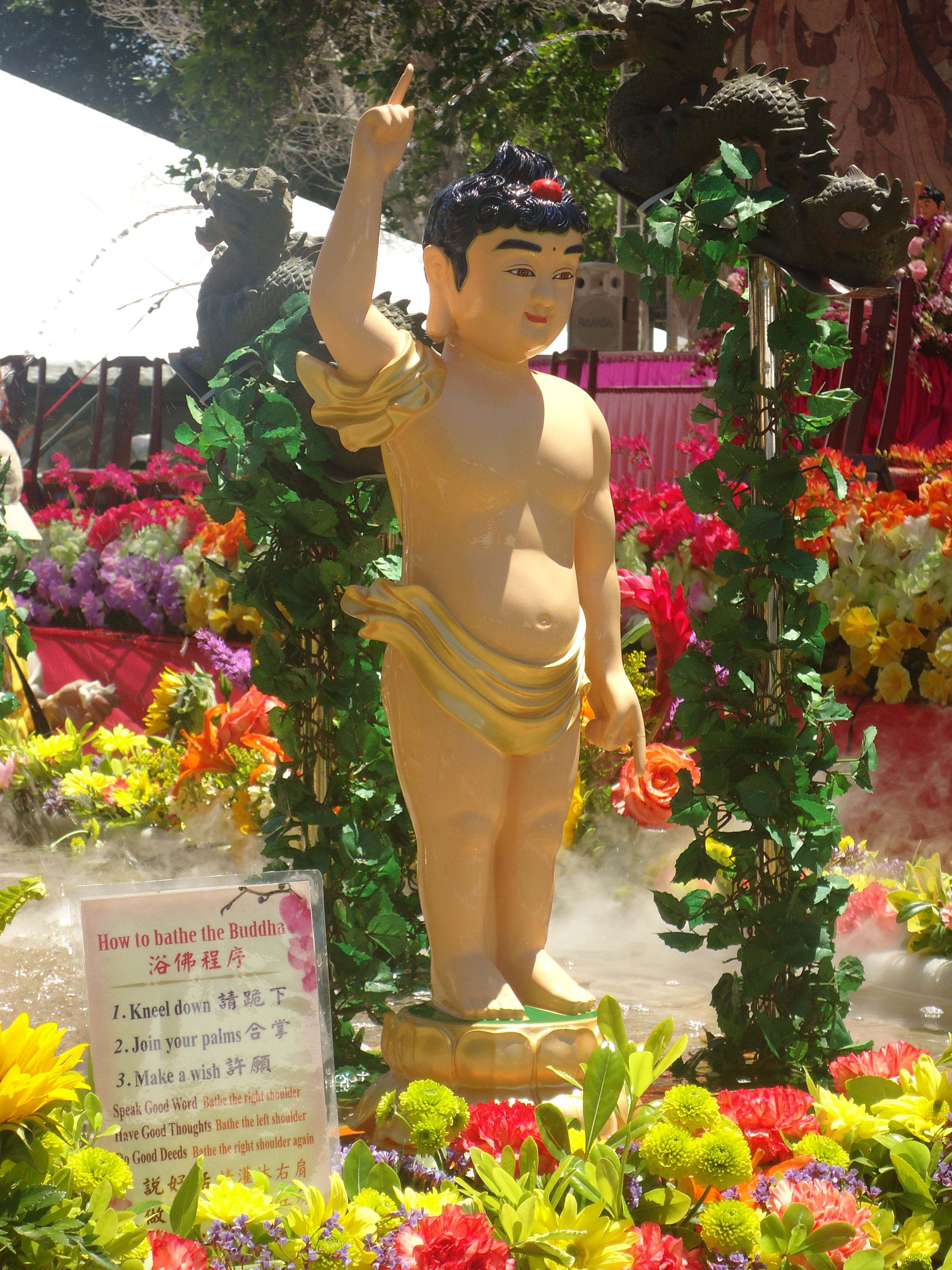 Statue of the Buddha as a child